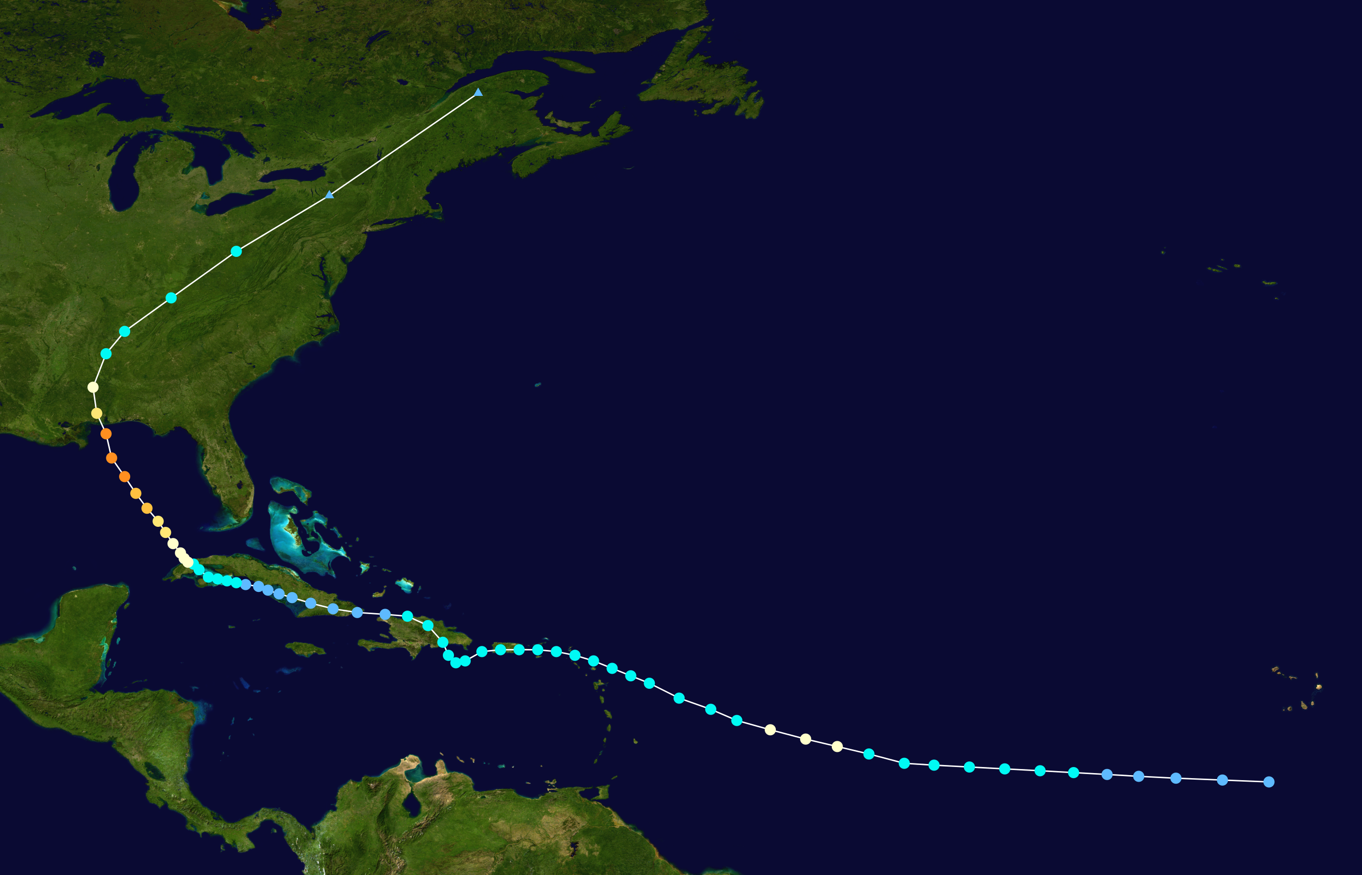 Track map of Hurricane Frederic of the 1979 Atlantic hurricane season. The points show the location of the storm at 6-hour intervals. The colour represents the storm's maximum sustained wind speeds as classified in the Saffir–Simpson scale (see below), and the shape of the data points represent the nature of the storm, according to the legend below. Saffir–Simpson scale Tropical depression≤38 mph≤62 km/h Category 3111–129 mph178–208 km/h Tropical storm39–73 mph63–118 km/h Category 4130–156 mph209–251 km/h Category 174–95 mph119–153 km/h Category 5≥157 mph≥252 km/h Category 296–110 mph154–177 km/h Unknown Storm type Tropical cyclone Subtropical cyclone Extratropical cyclone / Remnant low / Tropical disturbance / Monsoon depression